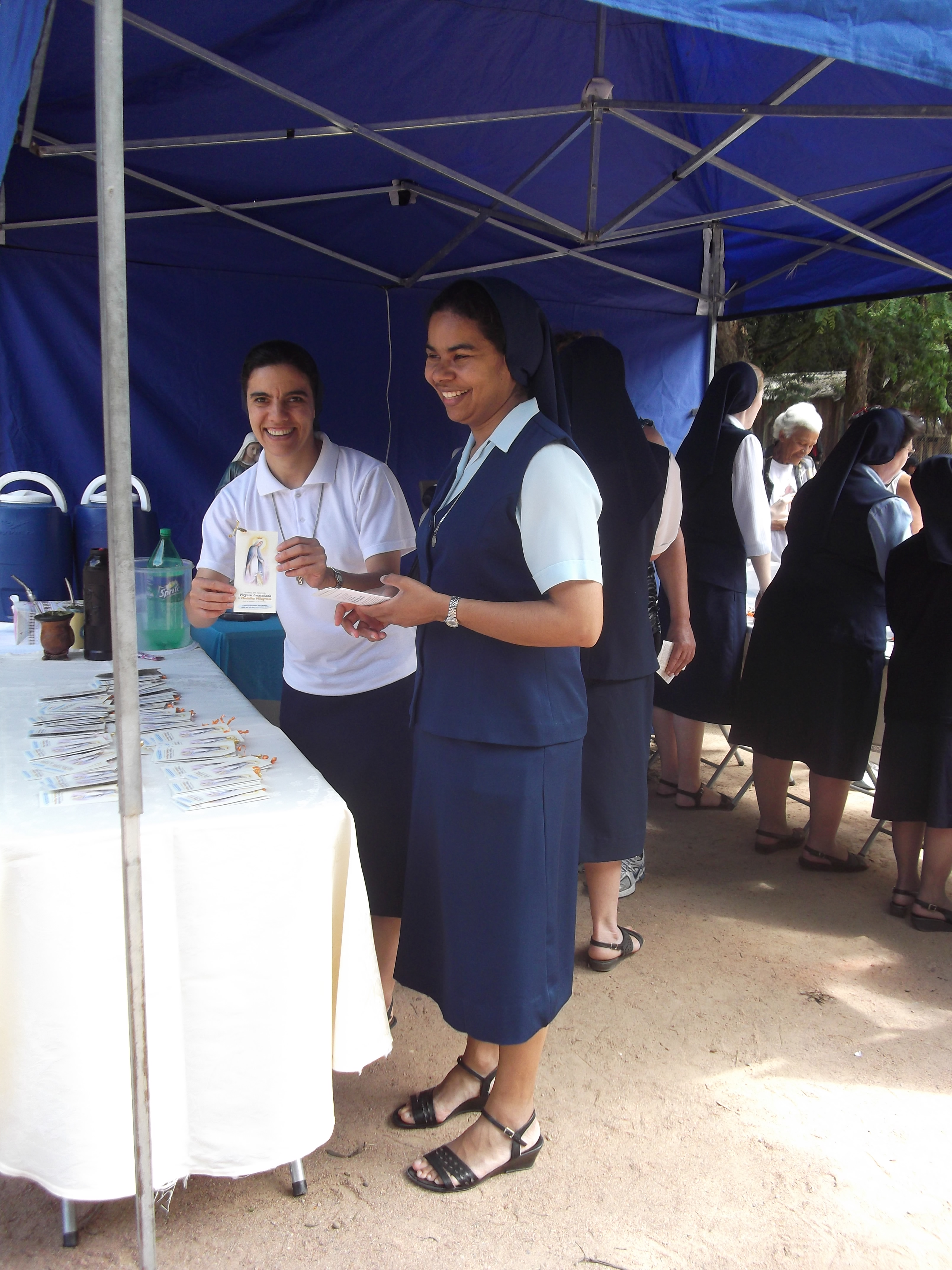 Company of the Daughters of Charity of Saint Vincent de Paul